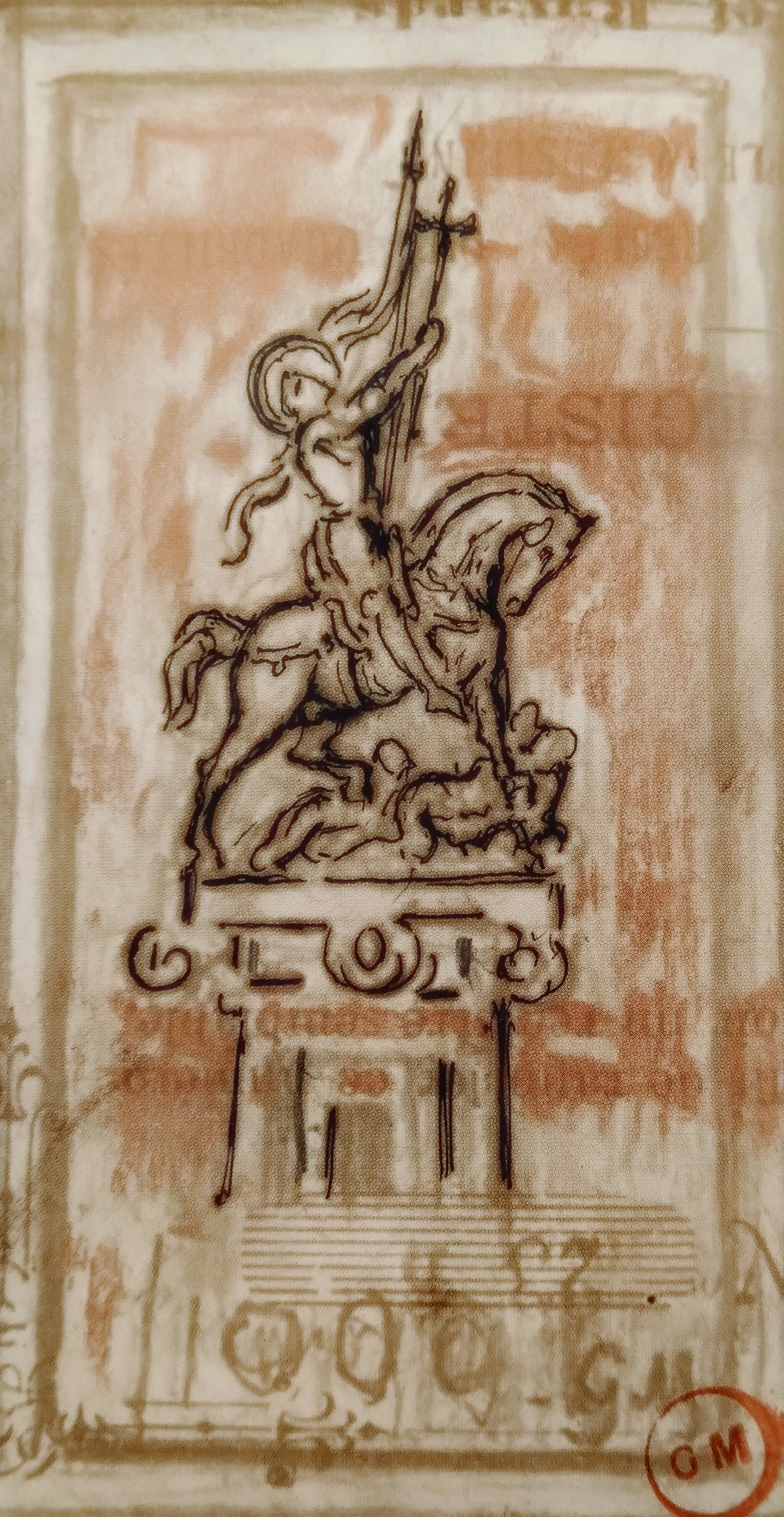 project of monument depicting Johannes of Arc by Gustave Moreau